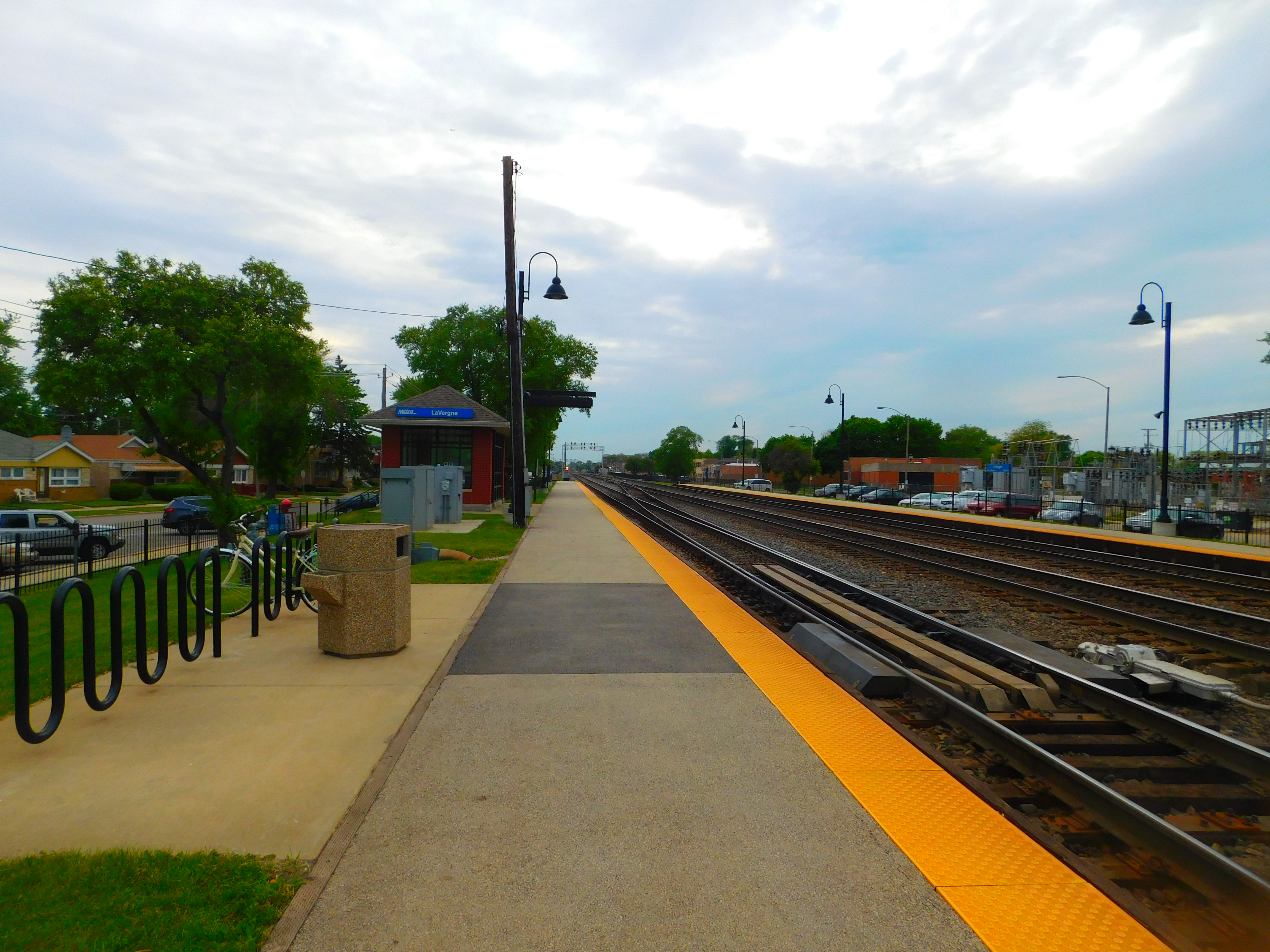 The La Vergne station for Metra in Berwyn, Illinois in May 2016.